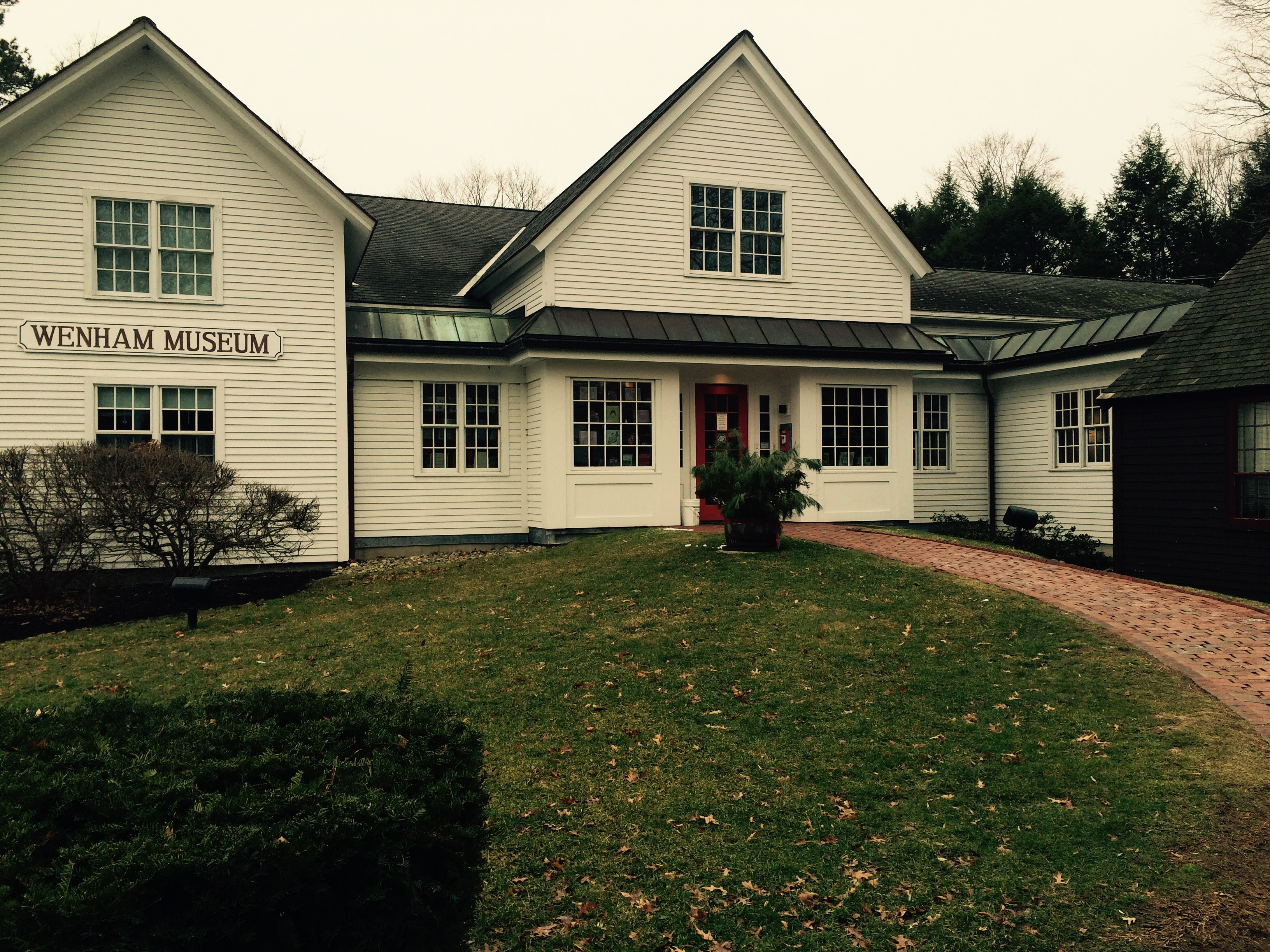 The outside of the Wenham Museum